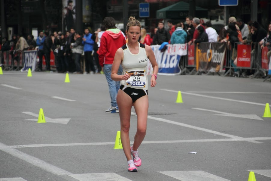 Julia Takacs in Spanish Race Walking Championship . March 3, 2013, Murcia.